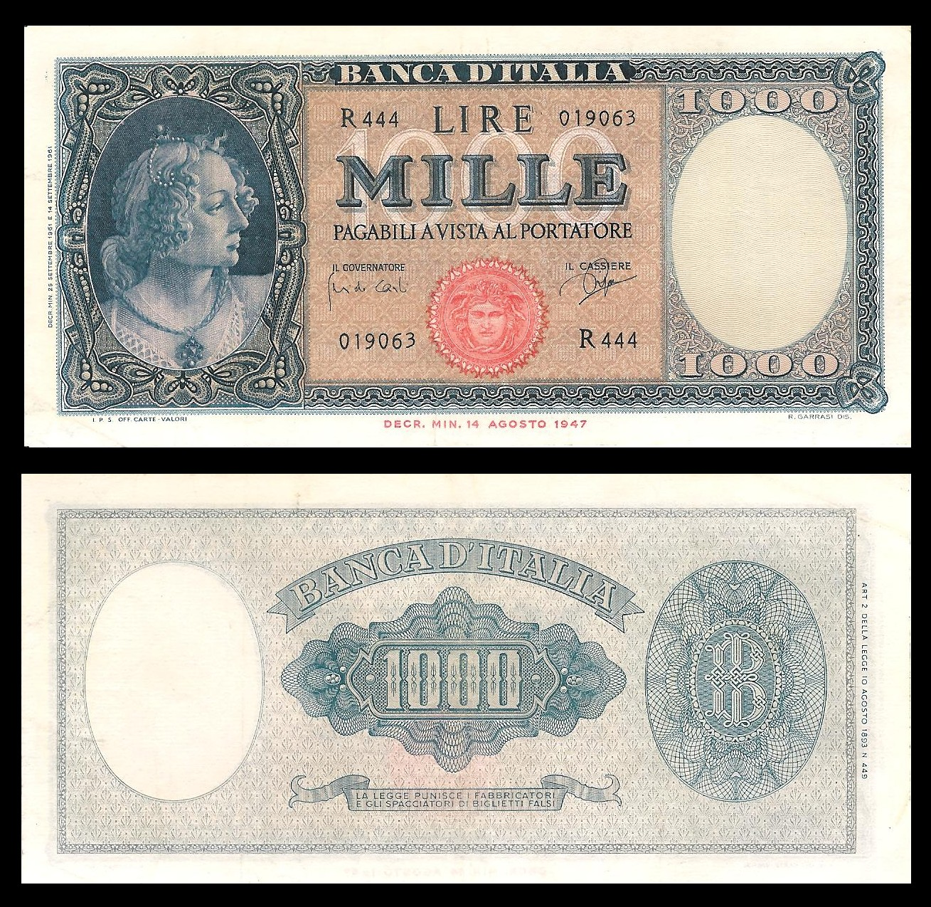 1000 Lire Pearls